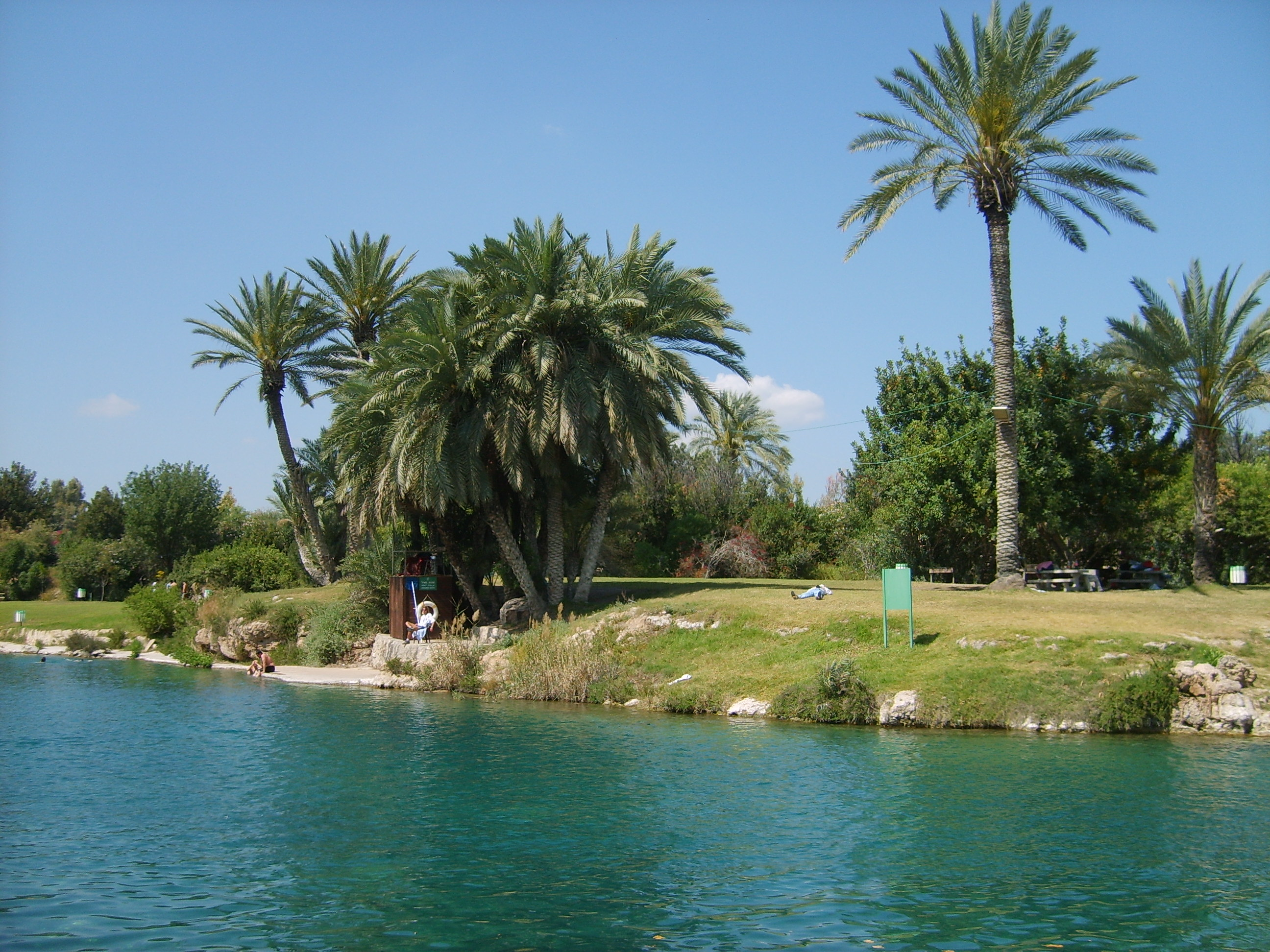 Natural pool in Gan Hashlosha National Park at the foot of Mount Gilboa.